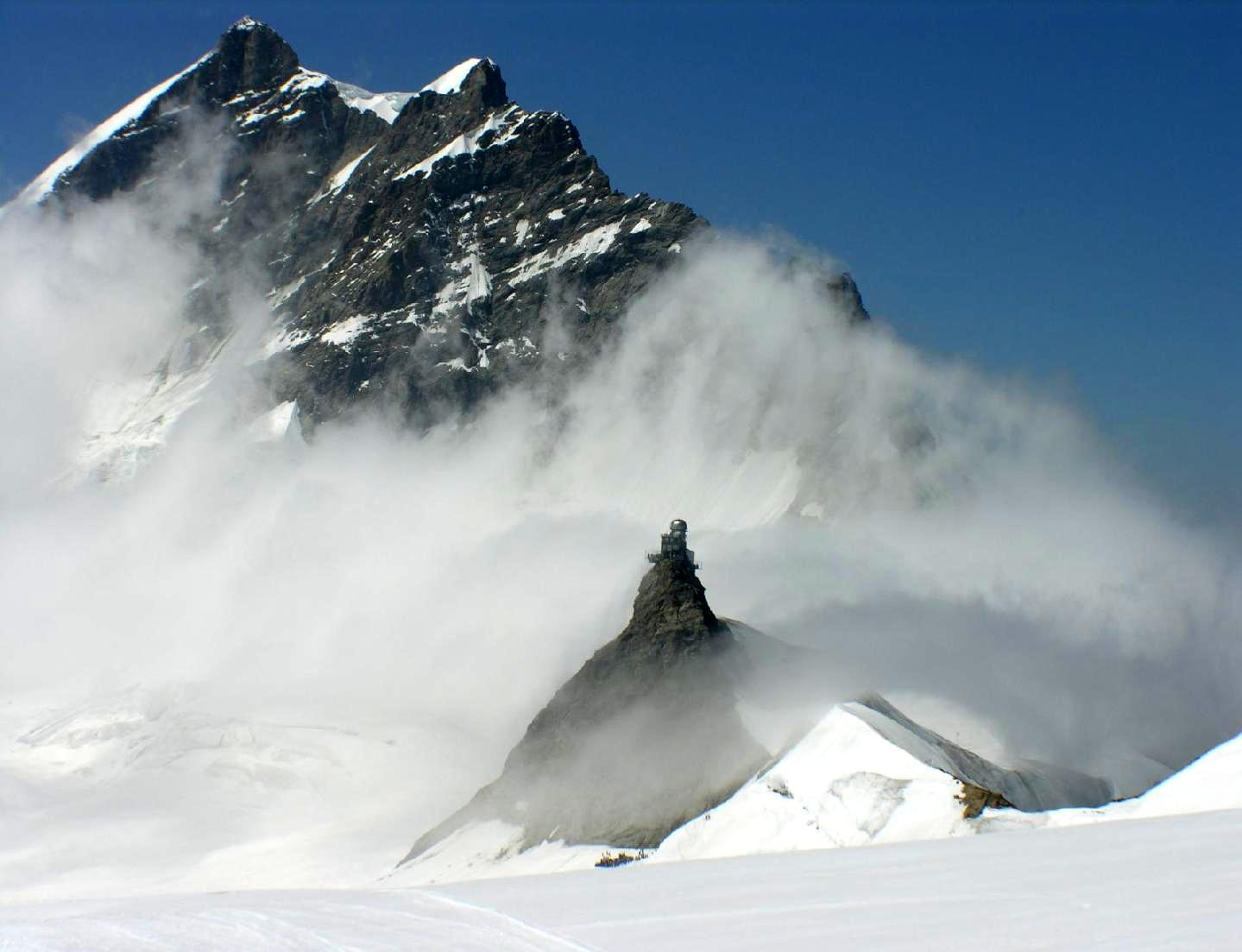 Cloud formation on Jungfraujoch with the Sphinx observation center in front of Jungfrau, Bernese Alps, Switzerland (looking southwest)